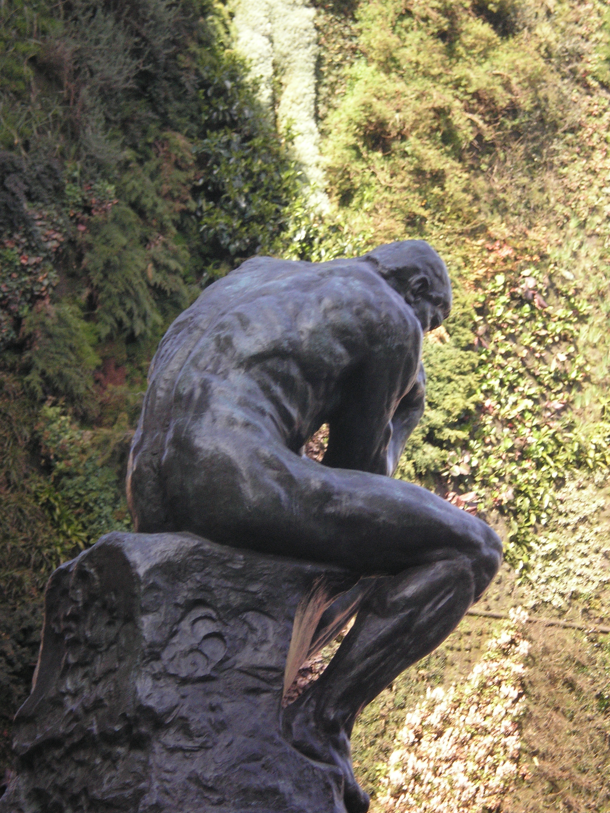 The thinker, sculpture by Auguste Rodin, in Madrid.